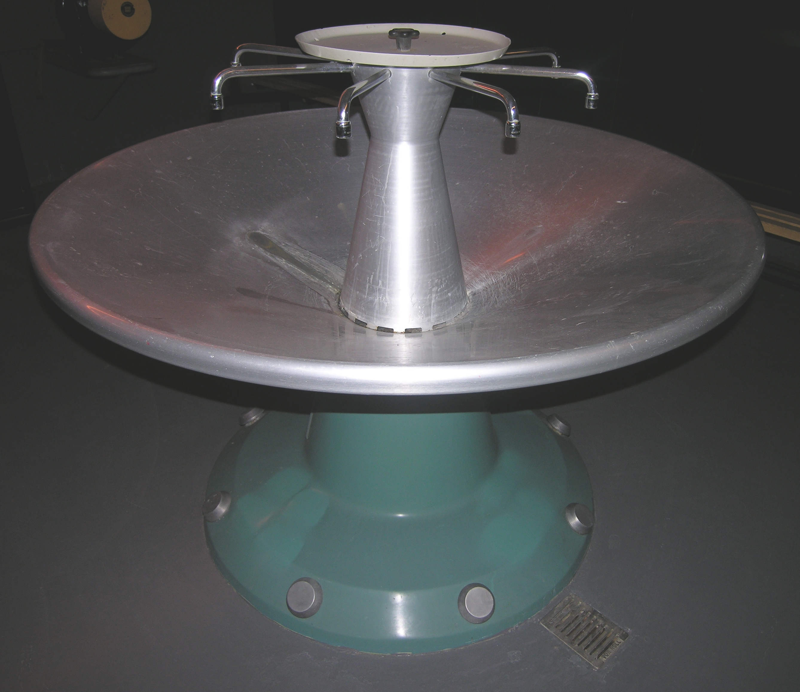 A large sink where many workers can wash they hands at the same time